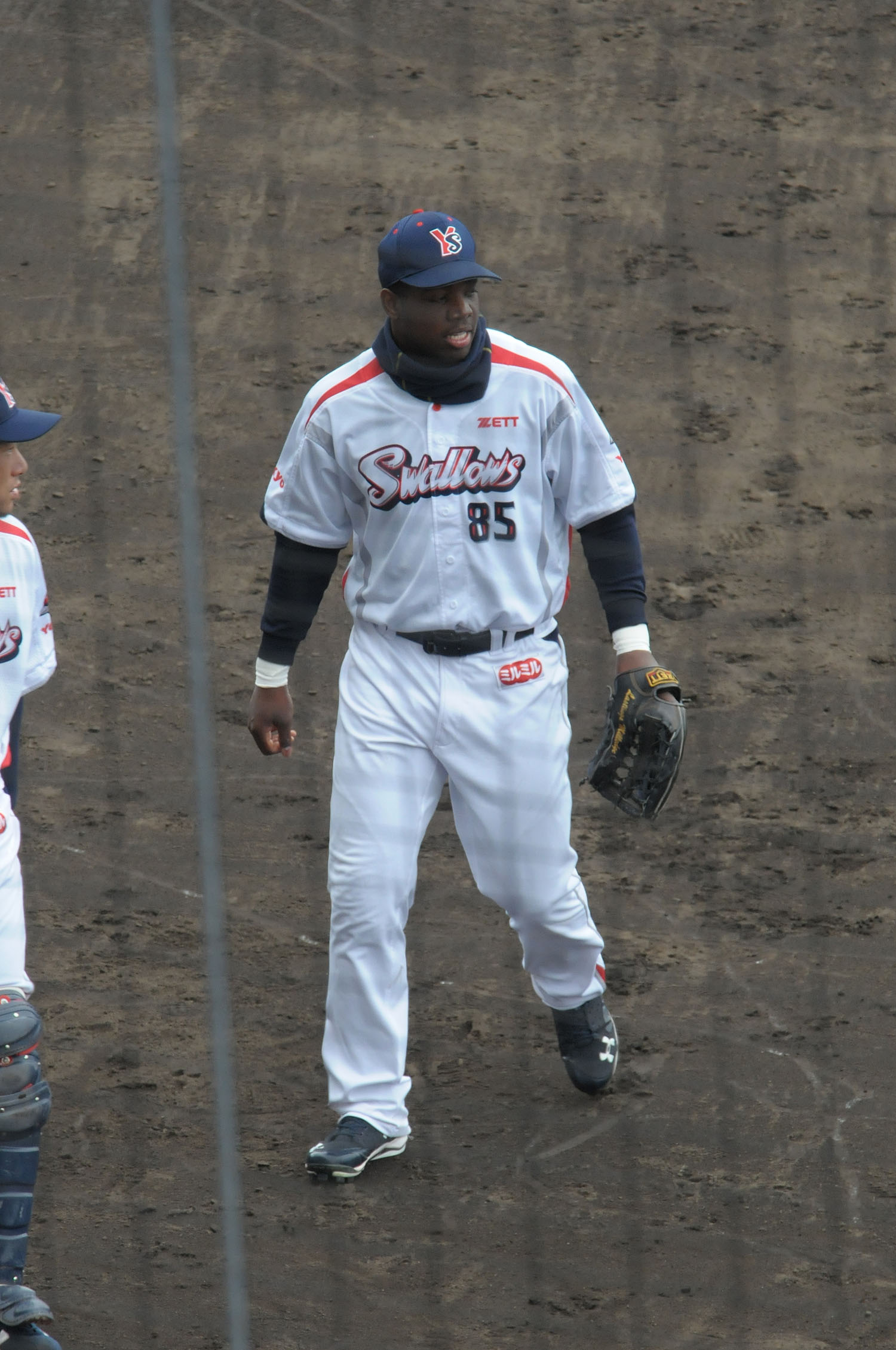 Lastings Milledge, outfielder of the Tokyo Yakult Swallows, at Akita Prefectural Baseball Stadium.